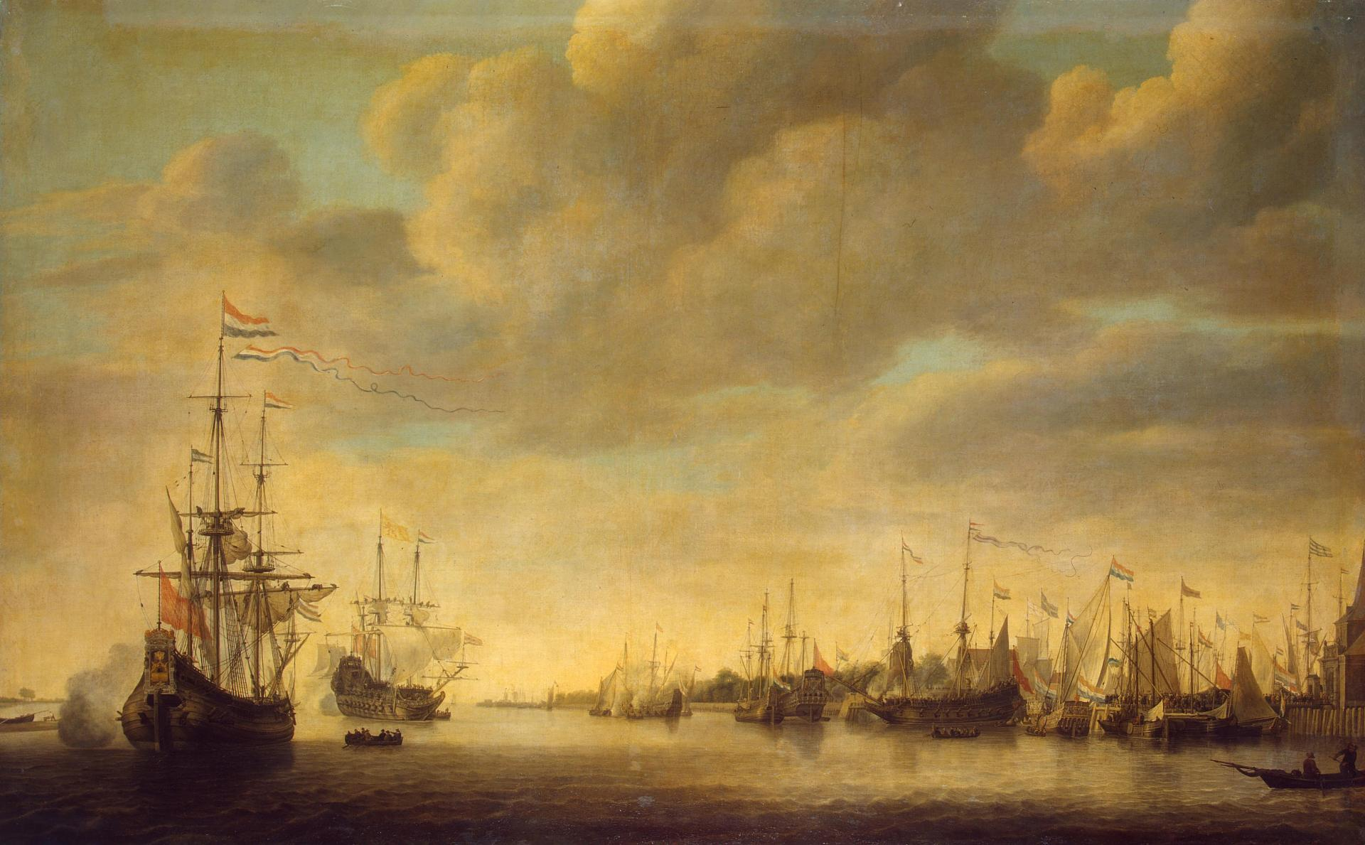 Arrival of William of Orange in Rotterdam